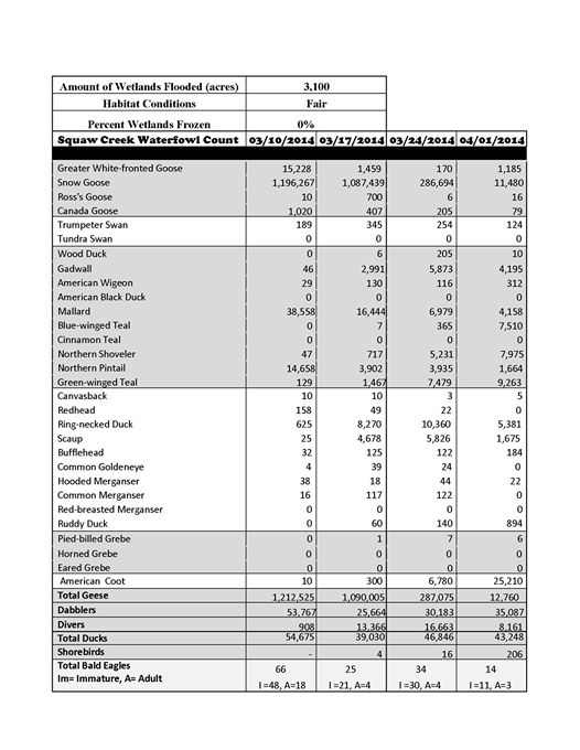 An example of weekly waterfowl counts released by Squaw Creek National Wildlife Refuge, which are used to track the migration of species which pass through the refuge including snowgeese.